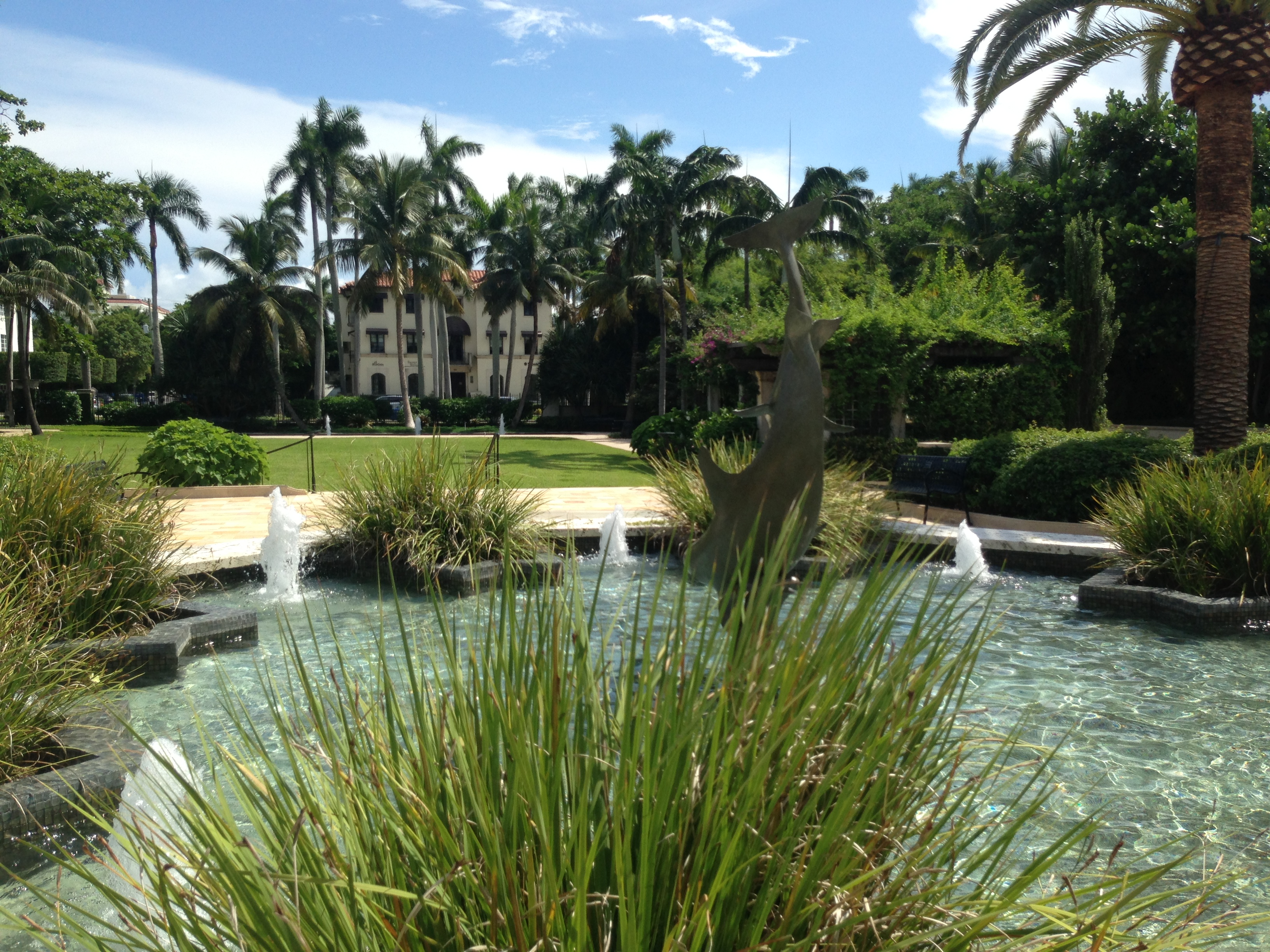 Society Of The 4 Arts Garden Palm Beach Florida